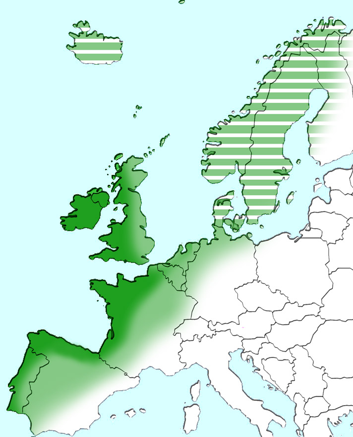 Atlantic Arc in dark green, Atlantic Europe in light green.